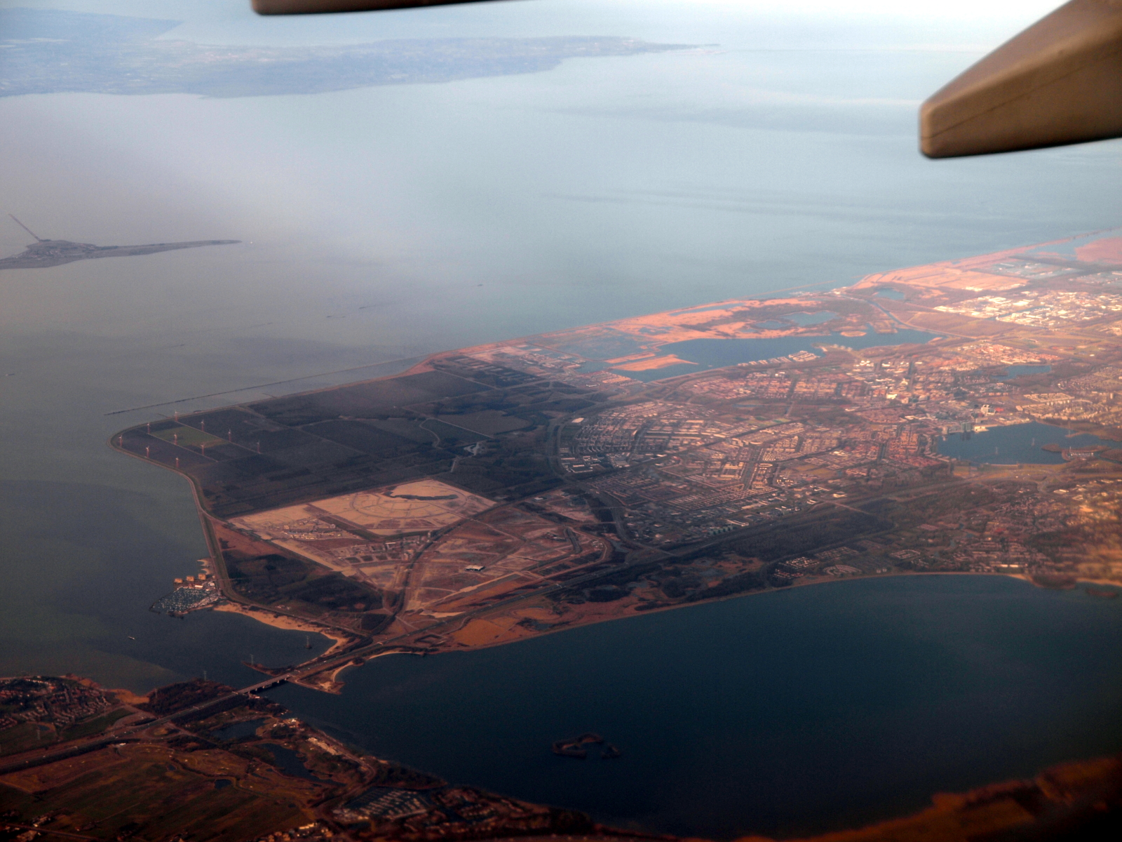 an artificial island in the netherlands. we usually pass flevoland when we fly to venice